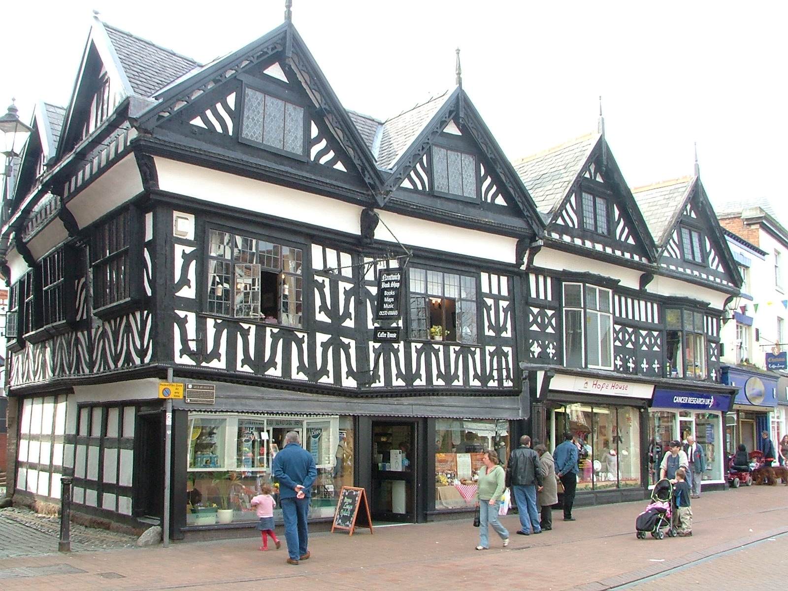 46 & 48 High Street, Nantwich, Cheshire.